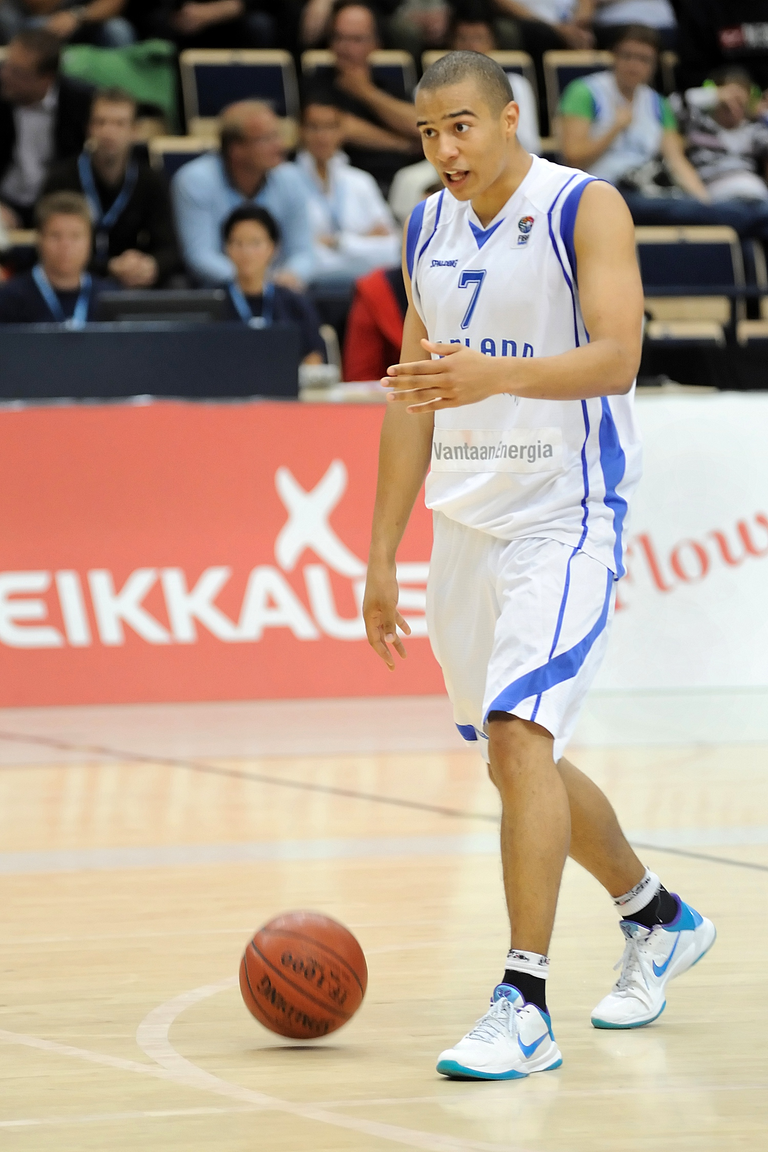 Finnish basketball player Shawn Huff playing against Latvia at Energia Areena in Vantaa, Finland.